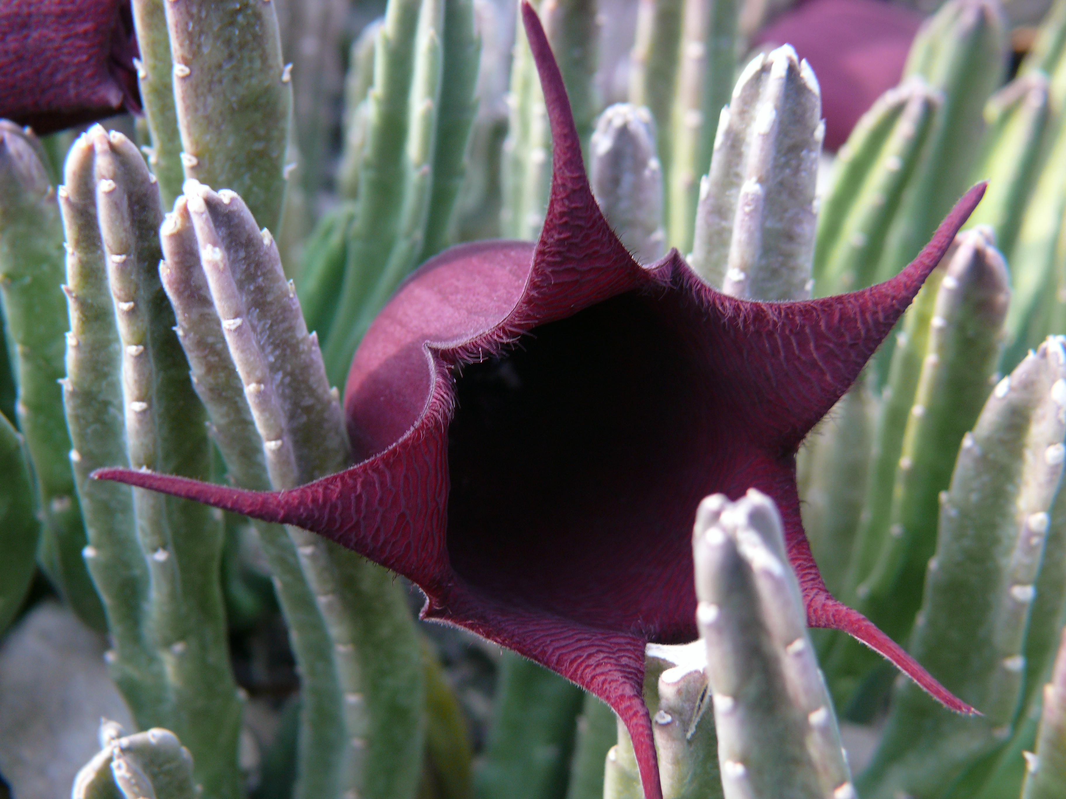 starfish asterias